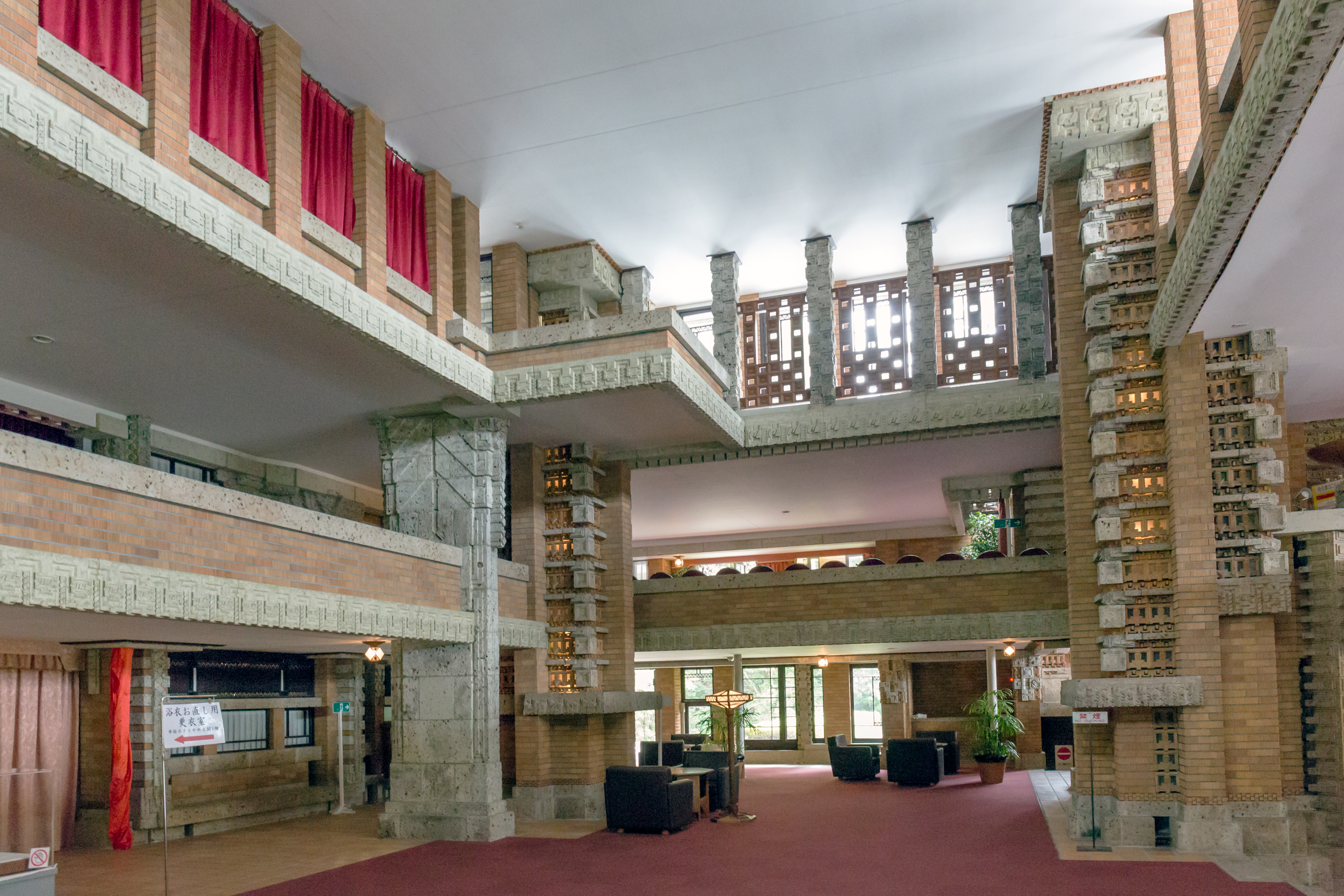 Main Entrance Hall and Lobby of the Imperial Hotel